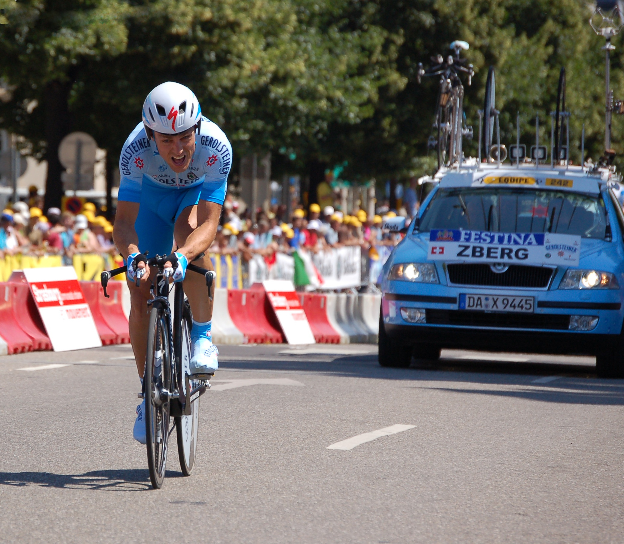 Beat Zberg during the prologue of the Tour de France 2006